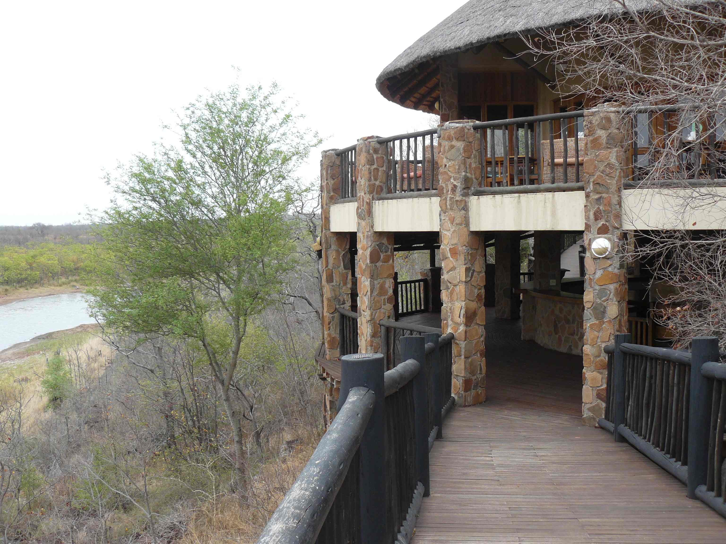 Mopani Camp in Kruger National Park